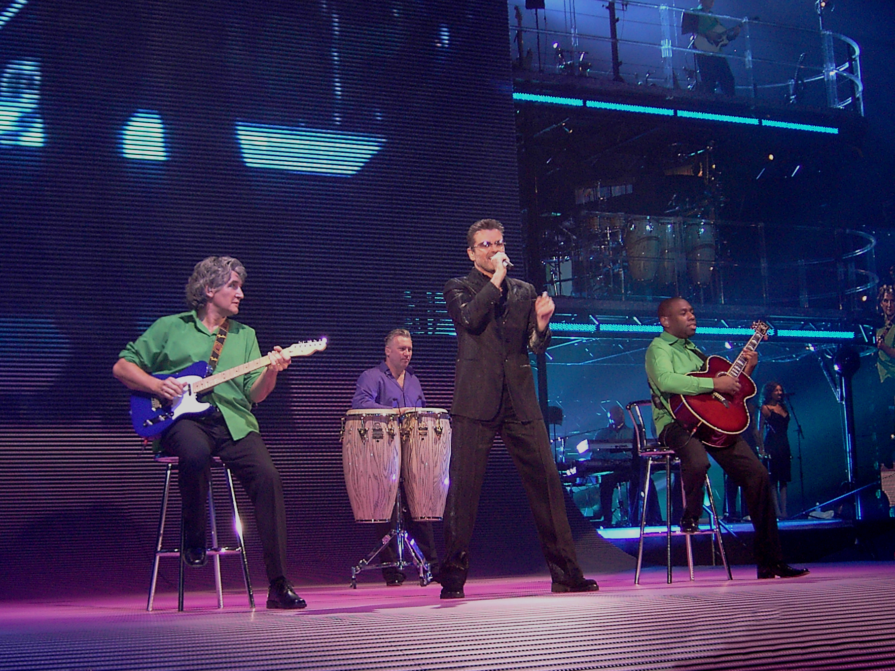 George Michael performing at the Olympiahalle arena (Munich, Germany) in 2006, for the 25 Live tour.